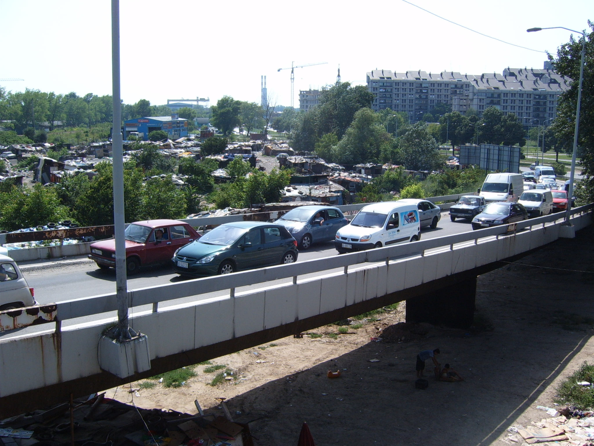 A view of the Karton city from Gazela bridge (Belgrade, Serbia). Karton city is a Roma slum in Belgrade